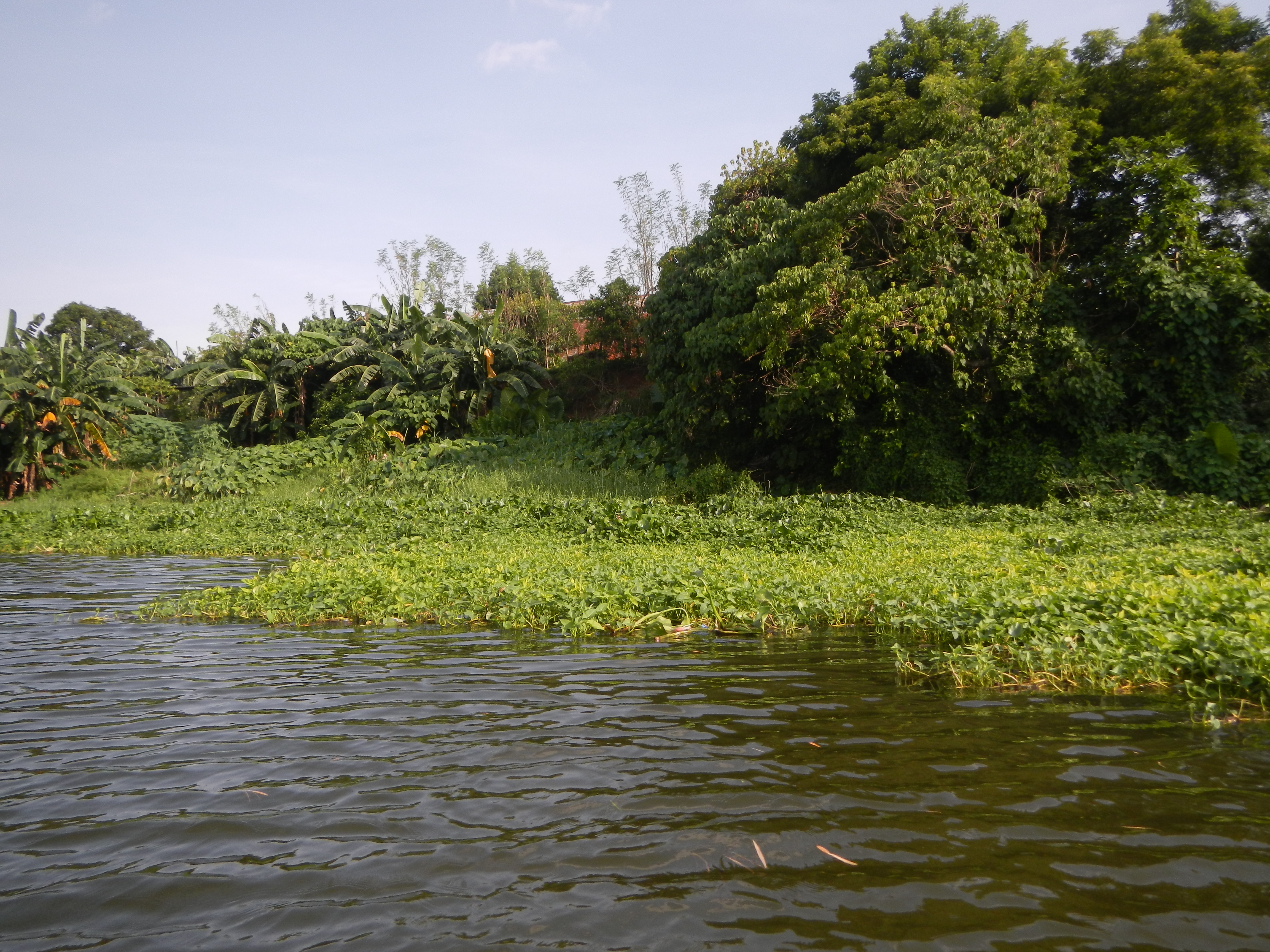 Angat River along Pulilan-Plaridel, Bulacan - Kangkong Ipomoea aquatica Forsk. Convolvulus reptans Linn. fields or plantations inAngat River (in Barangay Lumang Bayan, Plaridel, Bulacan on one side and Barangay Poblacion, Pulilan, Bulacan on the other side; scenic Pulilan River, part of the Angat River also called Bulacan River cutting its way through the eastern edge of Baliuag, and the southern fringes of Pulilan down to the tributary of Manila Bay, the bank of the Pulilan River).